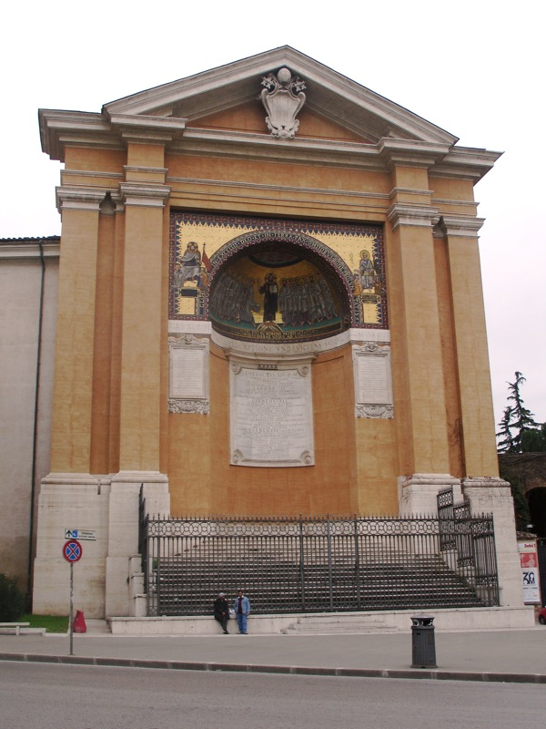 The tomb of Pope Pope Leo III Author:dpred5 Date:3 March 2007